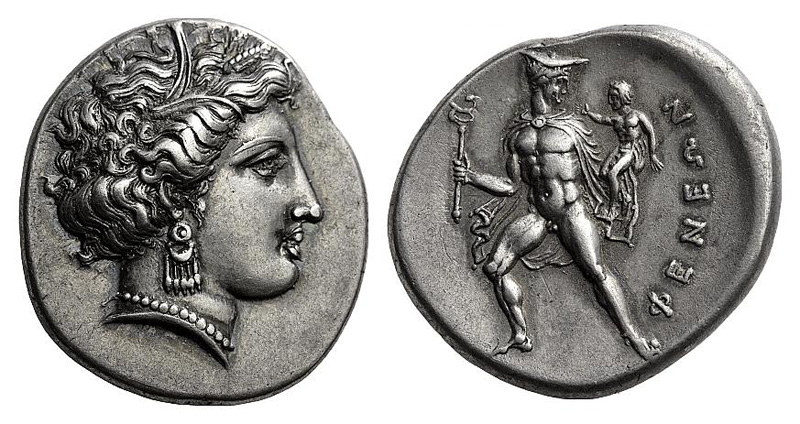 ARKADIA, Pheneos. Circa 360-350 BC. Stater (Silver, 12.13 g 10). Head of Demeter to right, wearing grain wreath, elaborate disc and crescent earring with pendants, and pearl necklace. Rev. ΦΕΝΕΩΝ Hermes, nude but for his petasos and for a cloak over his shoulders, partially facing and moving to the left, holding a kerykeion in his right hand; his head is turned back to right to gaze at the infant Arkas, whom he holds on his left arm with his left hand and who raises his right hand towards Hermes’ face.